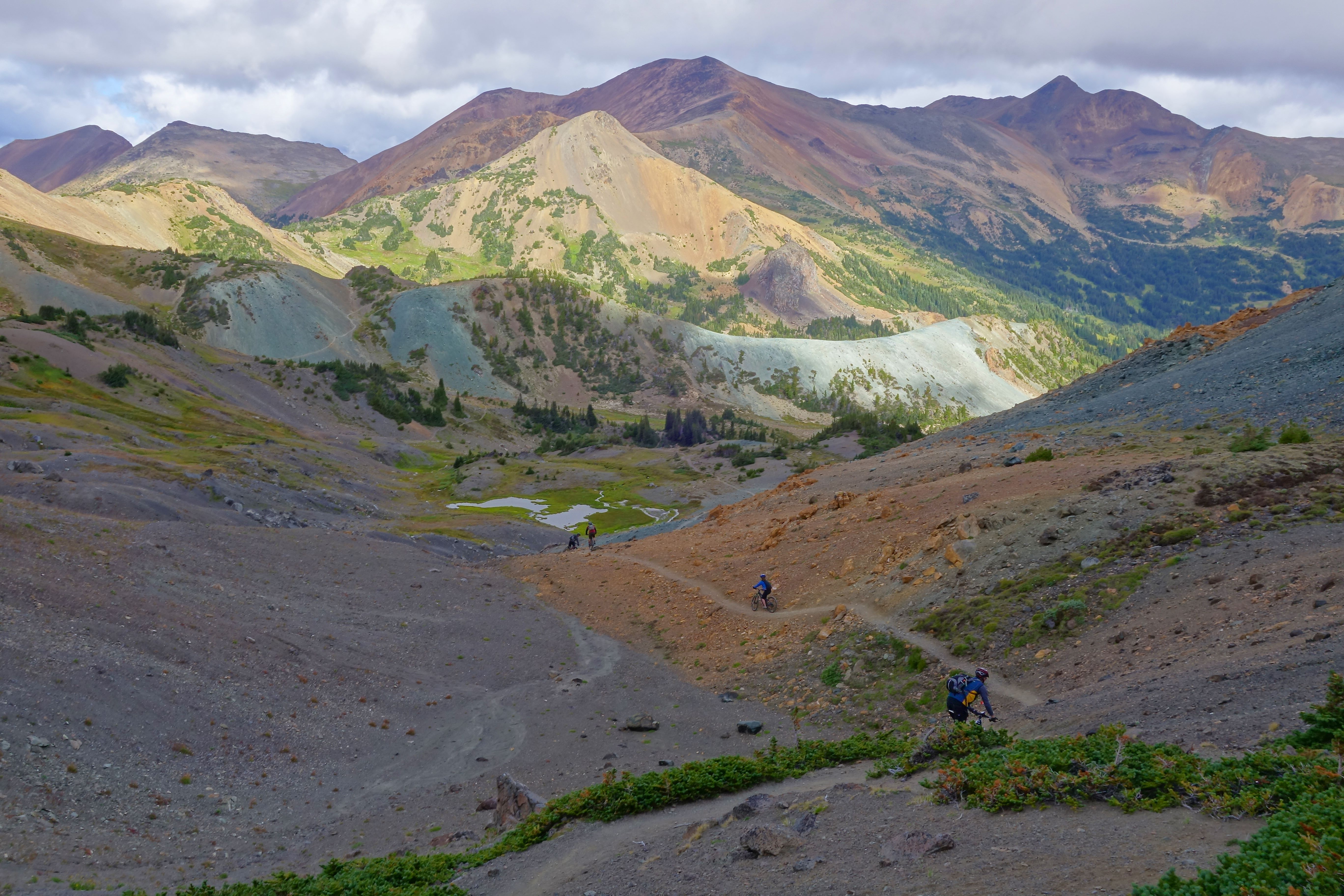 Rainbow Range of British Columbia